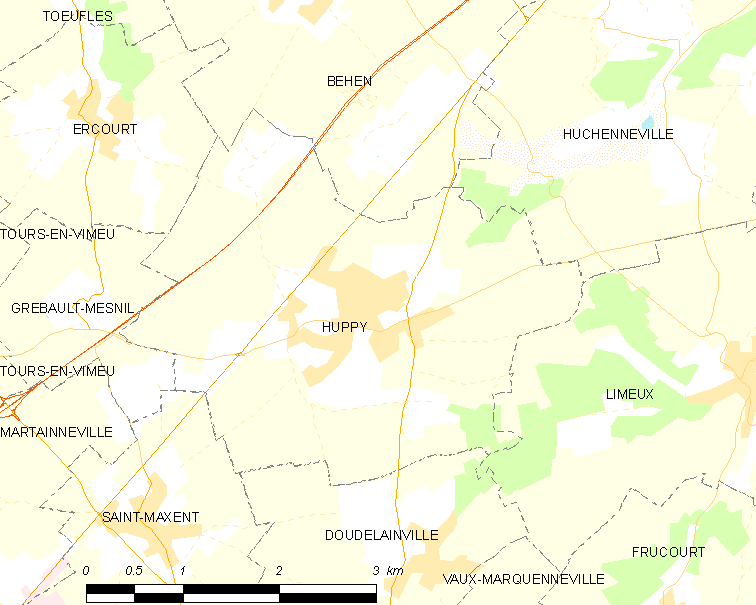 Map of French municipality Huppy